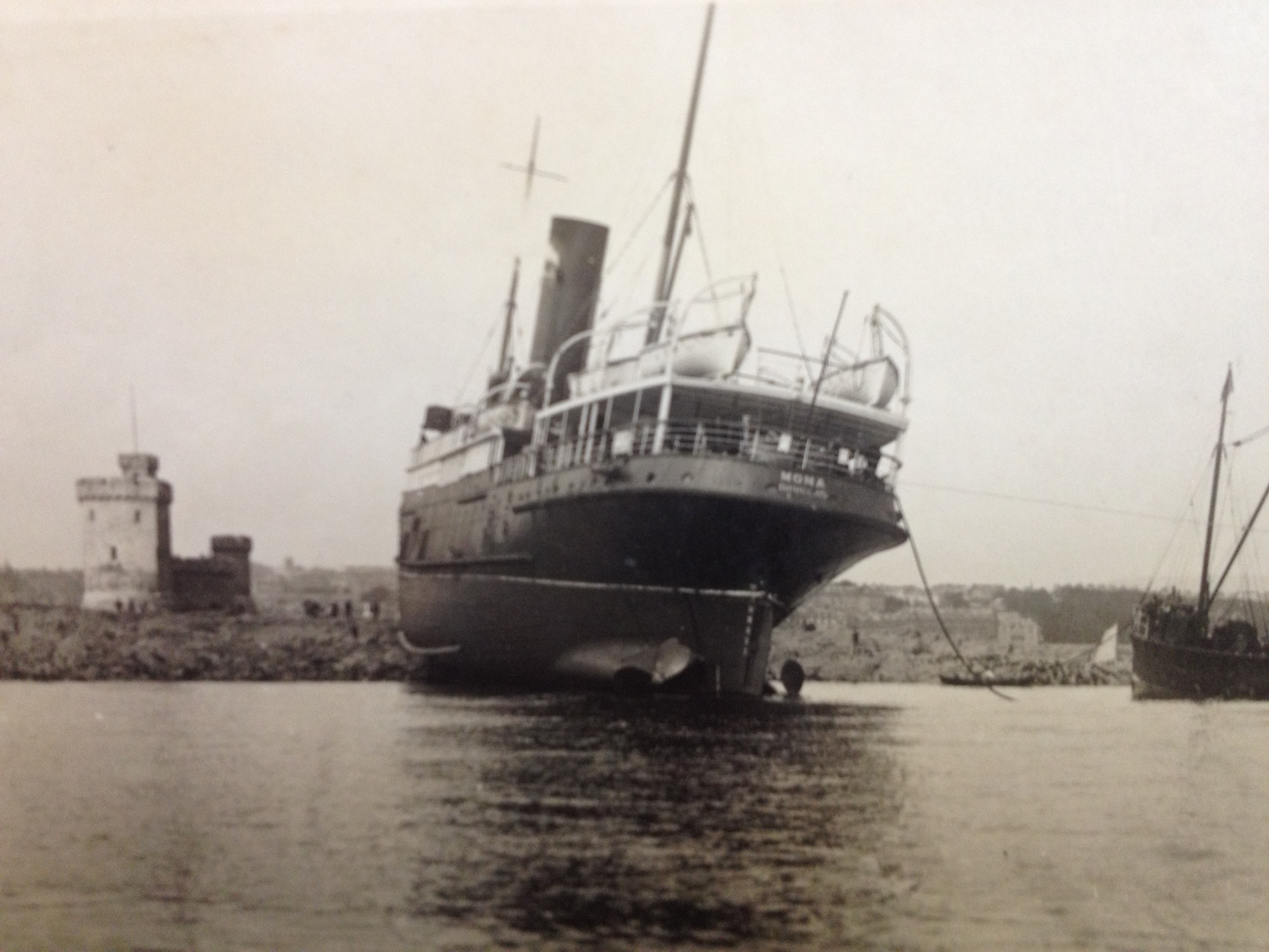 Isle of Man Steam Packet steamer Mona, aground on the Conister Rock, Douglas Bay, July 1930.